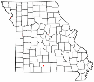 Modified from a map on Wikipedia.